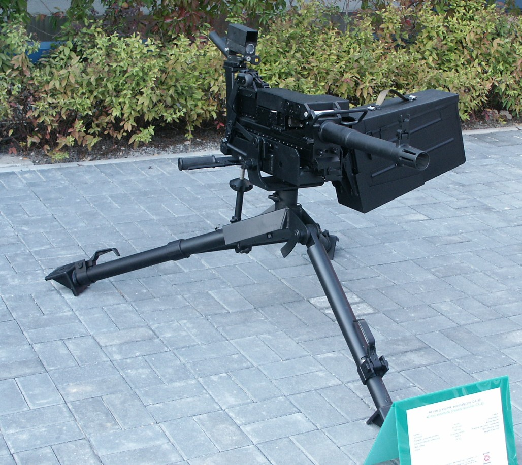 Polish automatic grenade launcher GA-40 prototype